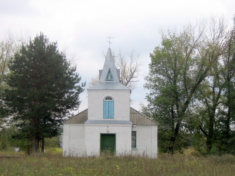 Church of sainted Paraskevа